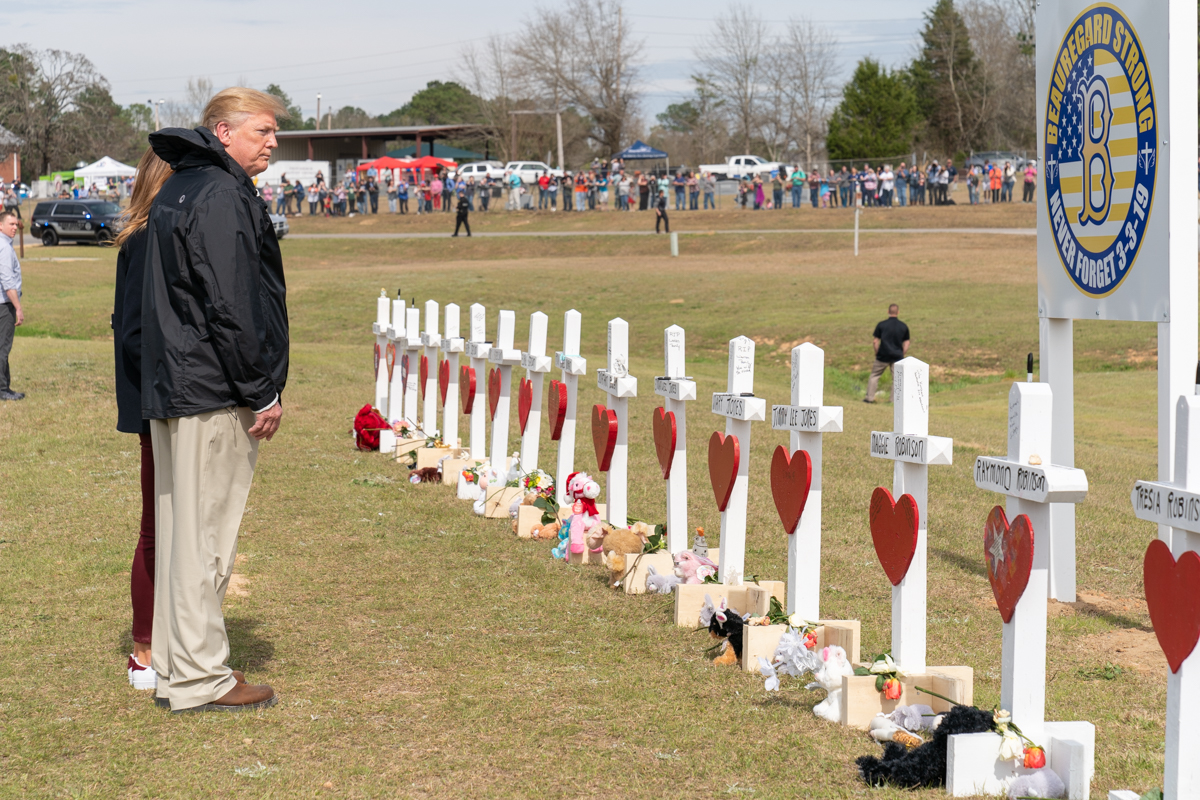 President Donald J. Trump, joined by First Lady Melania Trump, pauses to pay his respects to the tornado victims Friday, March 8, 2019, at a memorial of crosses outside the Providence Baptist Church Annex Building in Opelika, Ala. (Official White House Photo by Shealah Craighead)